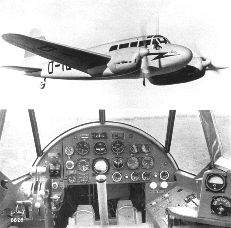 Halle (Siebel) Fh 104 (D-IQPG); cockpit instruments made by Askania